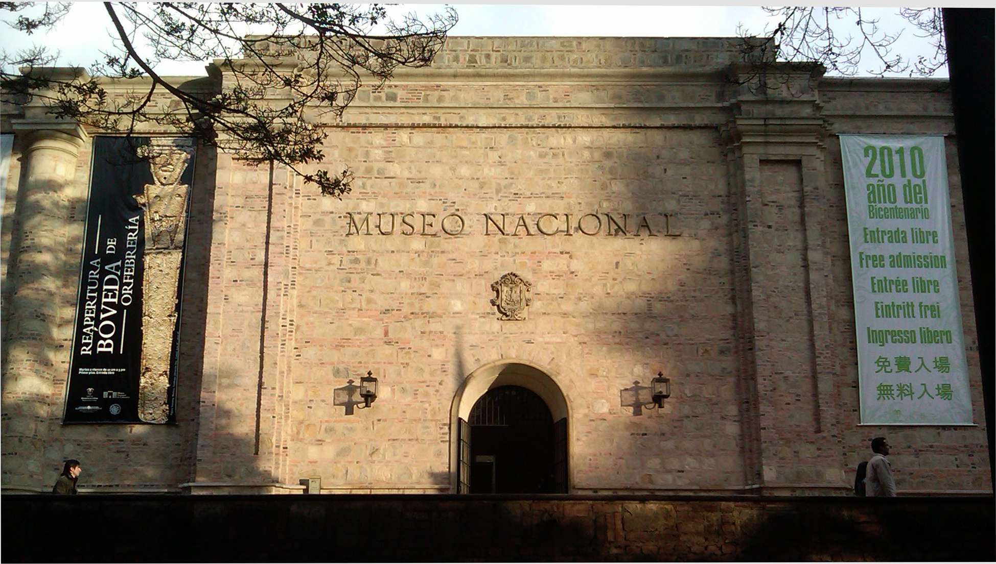 The main entrance of the Colombian National Museum.